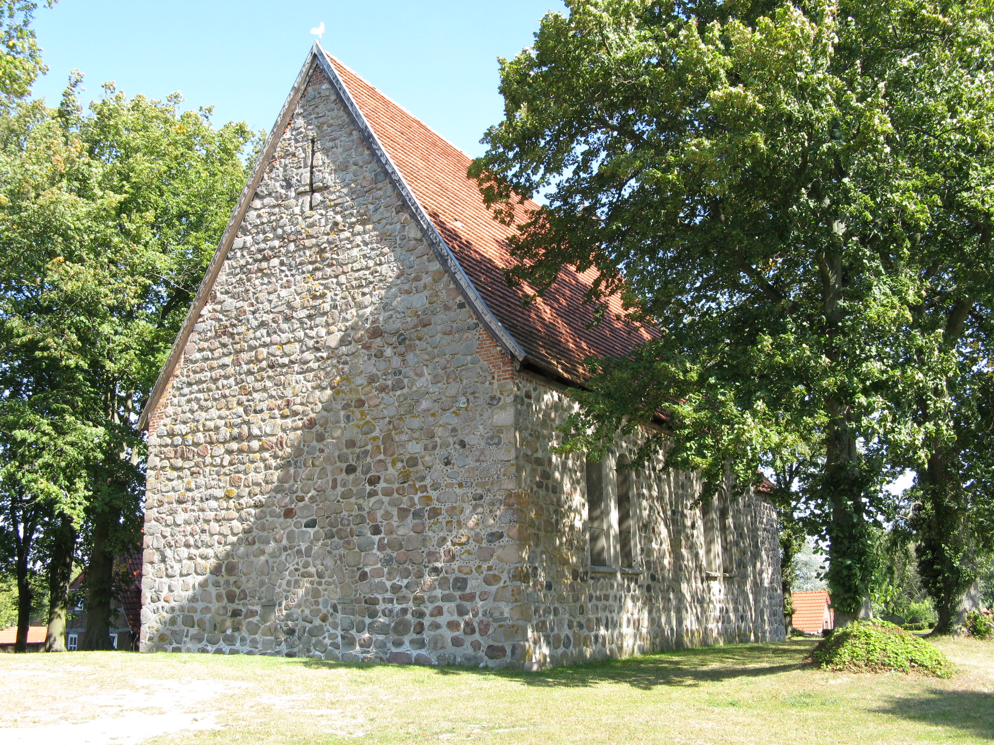 Church in Groß Wokern, disctrict Güstrow, Mecklenburg-Vorpommern, Germany